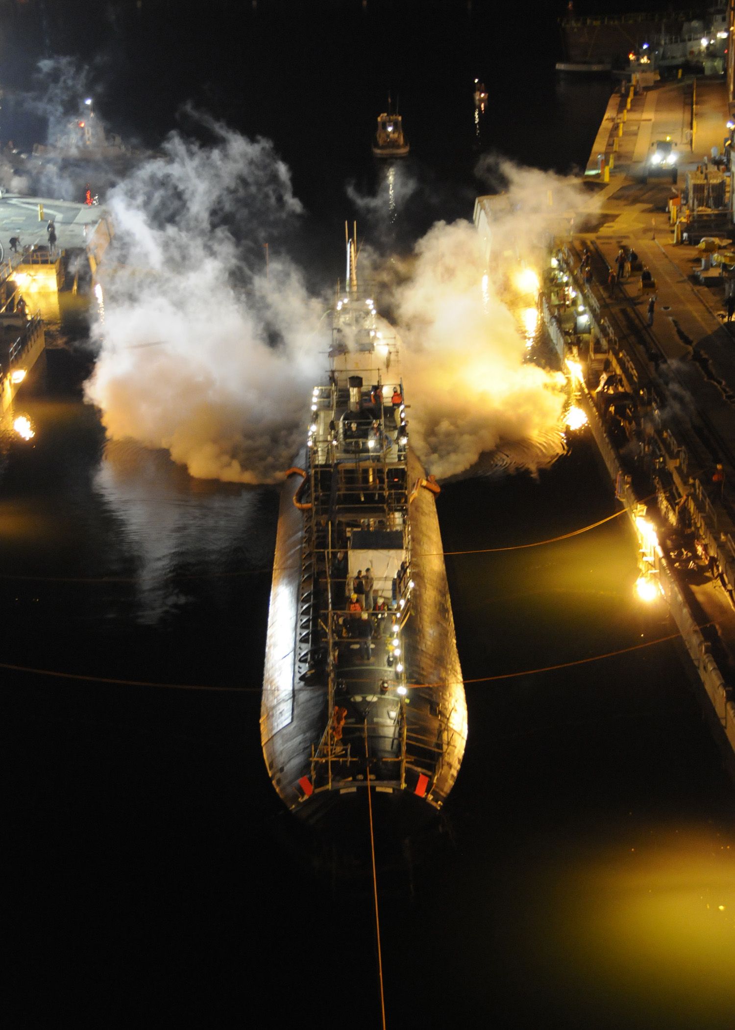 KITTERY, Maine (March 15, 2012) The Los Angeles-class attack submarine USS Miami (SSN 755) enters dry dock to begin an engineered overhaul at Portsmouth Naval Shipyard. (U.S. Navy photo by Jim Cleveland/Released)